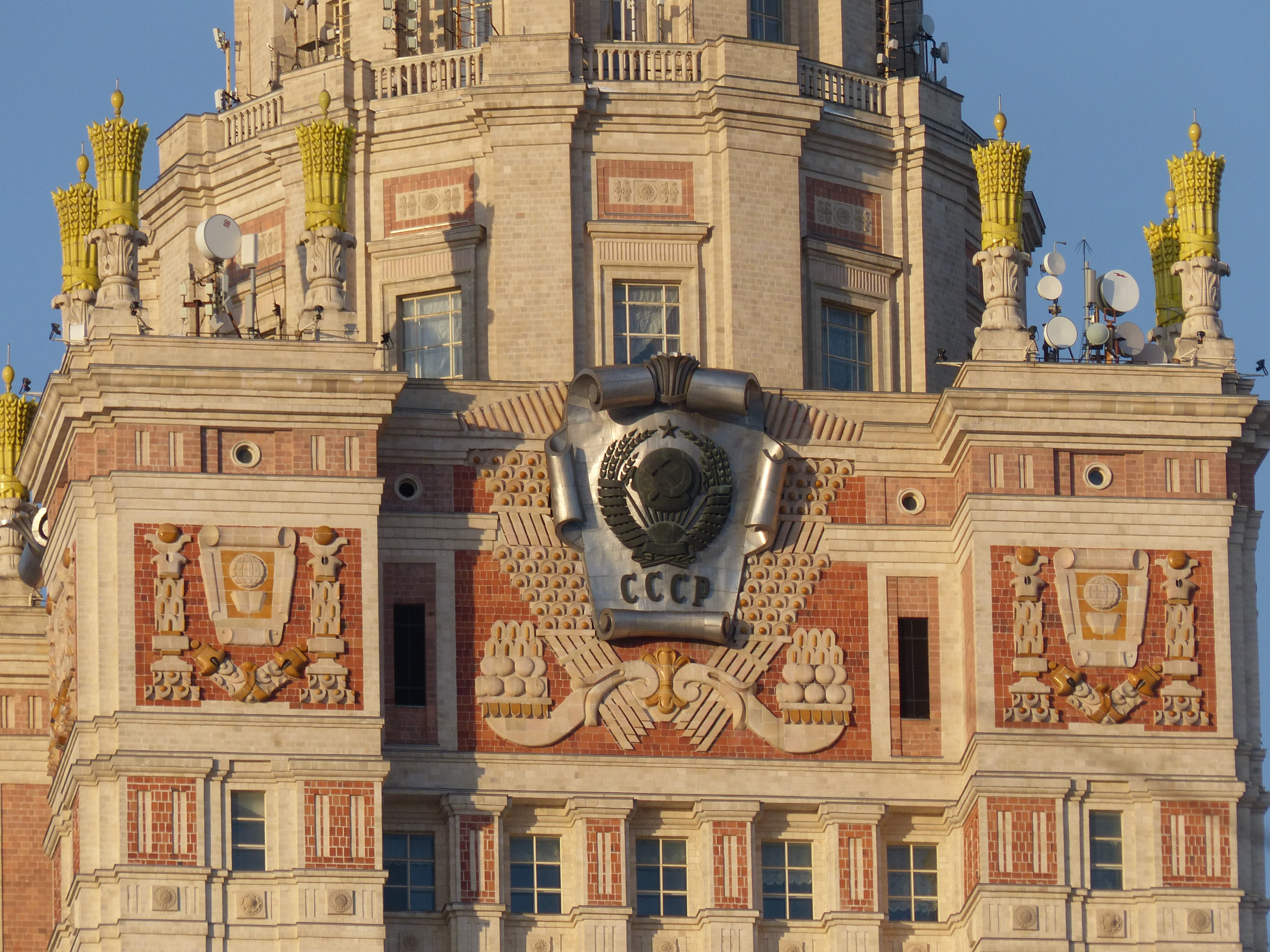 The main building of the Moscow State University